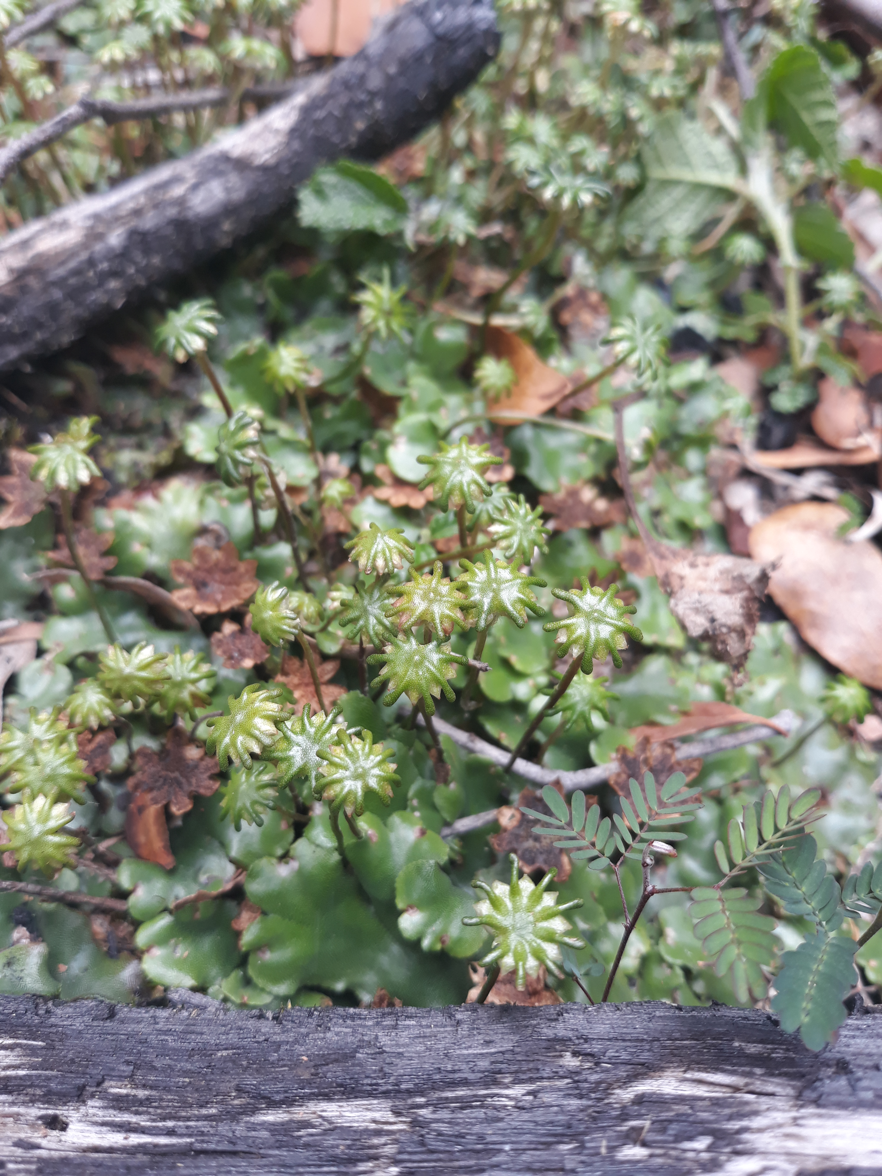 Marchantia beteroana, with female gametophytes known as archegoniophores.